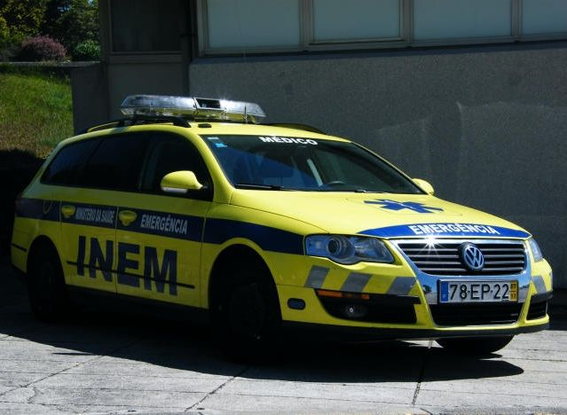 VMER